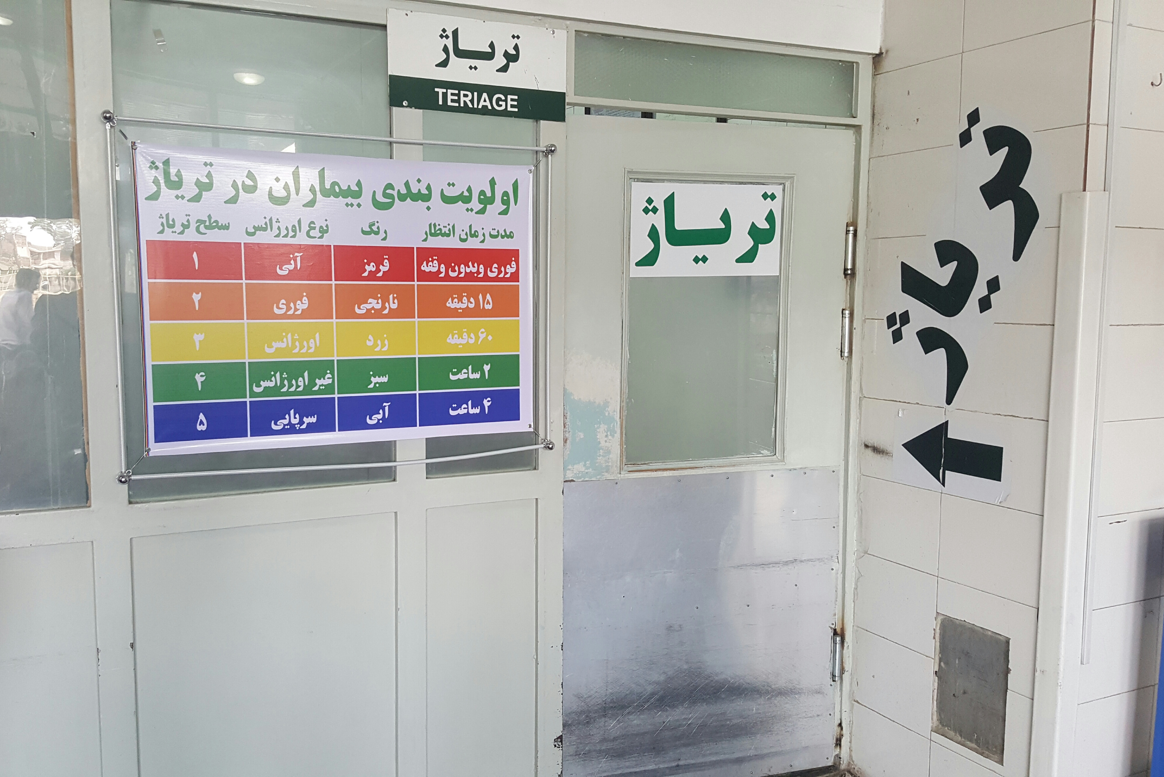 Triage room in 15 Khordad Hospital, Varamin, Iran.